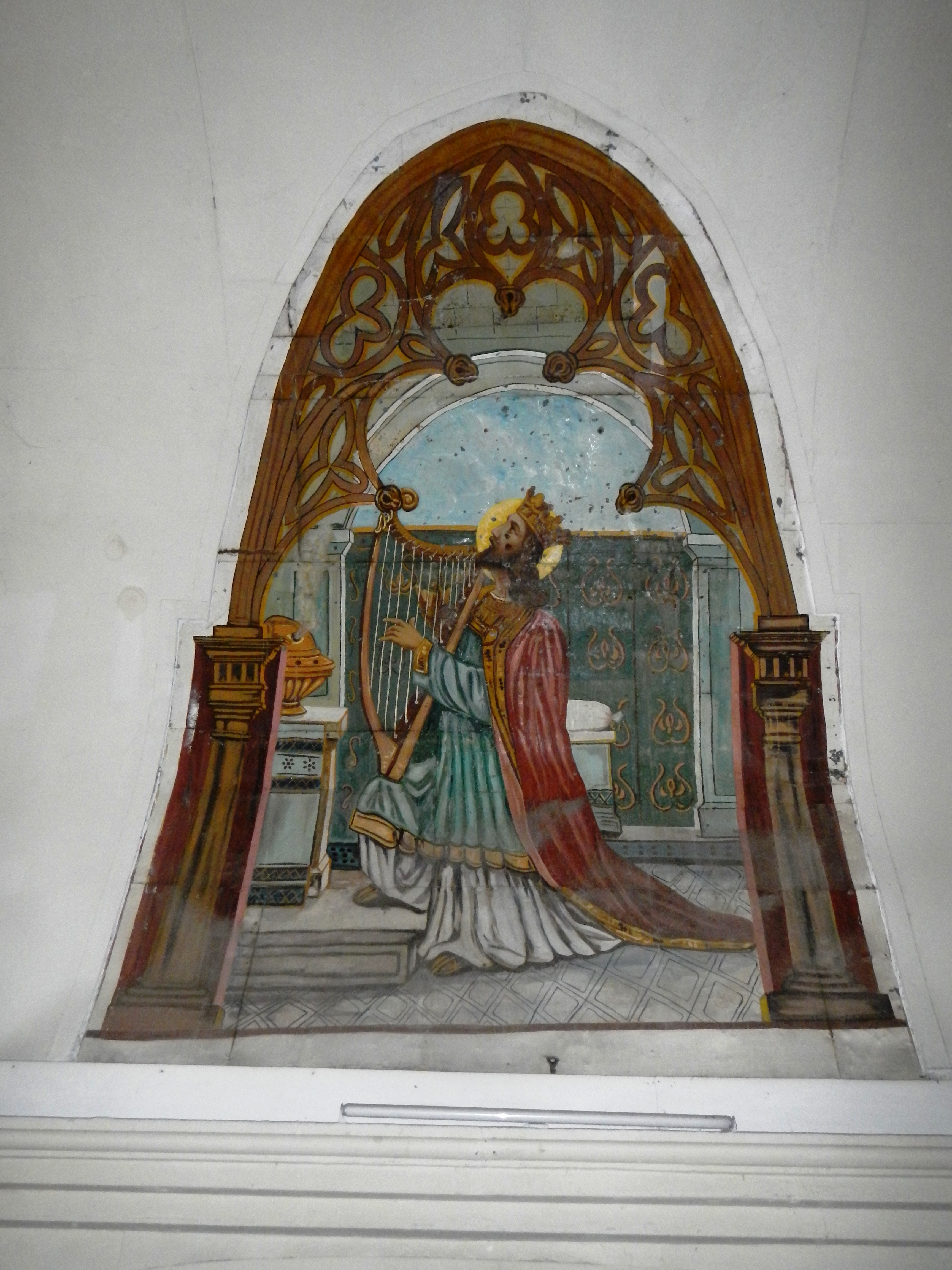 UploadWizard photos -- (General description, 3-dimension angle by angle photography of this town, church & landmarks) -- the centro, downtown of Santa Rosa, Laguna [1] (City of Santa Rosa (Filipino: Lungsod ng Santa Rosa) is a city in the province of Laguna, Philippines) Church and the scenic, skyline view of the City proper and its landmarks from the uppermost stairs of the Church heritage bell tower -- of 1796 Santa Rosa de Lima Parish Church of Santa Rosa at Kanluran (Poblacion) - belongs to the Roman Catholic Diocese of San Pablo[2]. Episcopal District II Vicariate of Saint Polycarp).[3] [4] Coordinates: 14°18'50"N 121°6'40"E.[5] Sta. Rosa 4026 Laguna, Philippines Feast day: August 23 Parish Priest: Father Frederick R. Yapana, VFParochial Vicar: Father Salve M. Llona.Website